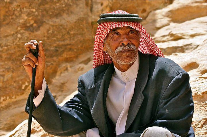 One of many Bedouins